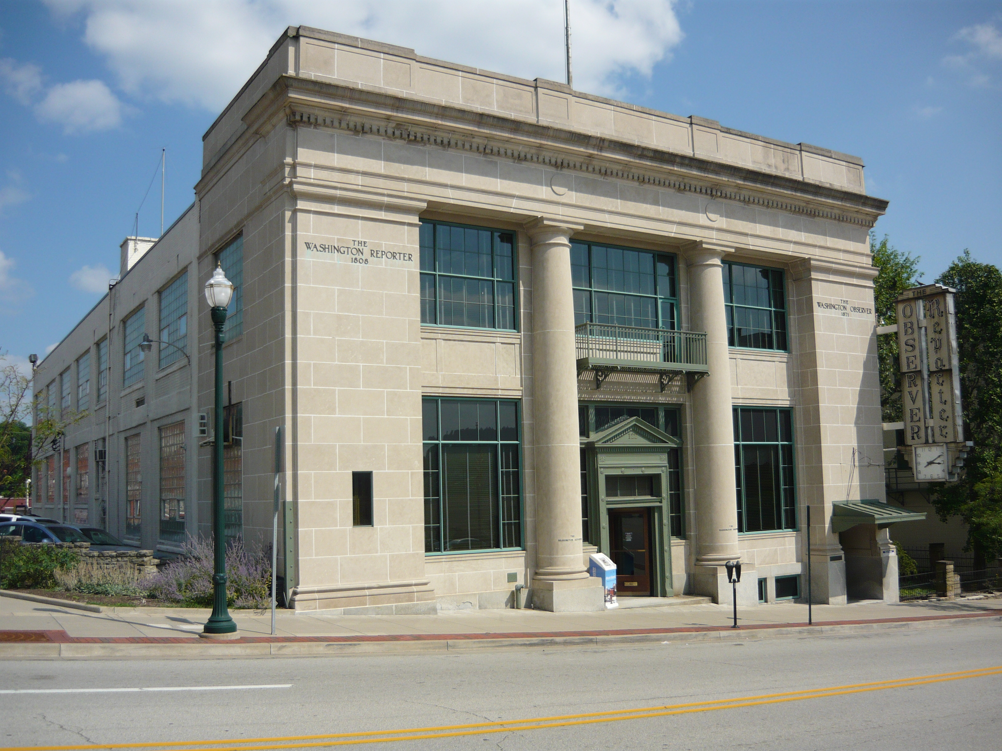 Observer-Reporter Building (formerly Washington Observer Building), 122 South Main Street, (City of) Washington, Pennsylvania.